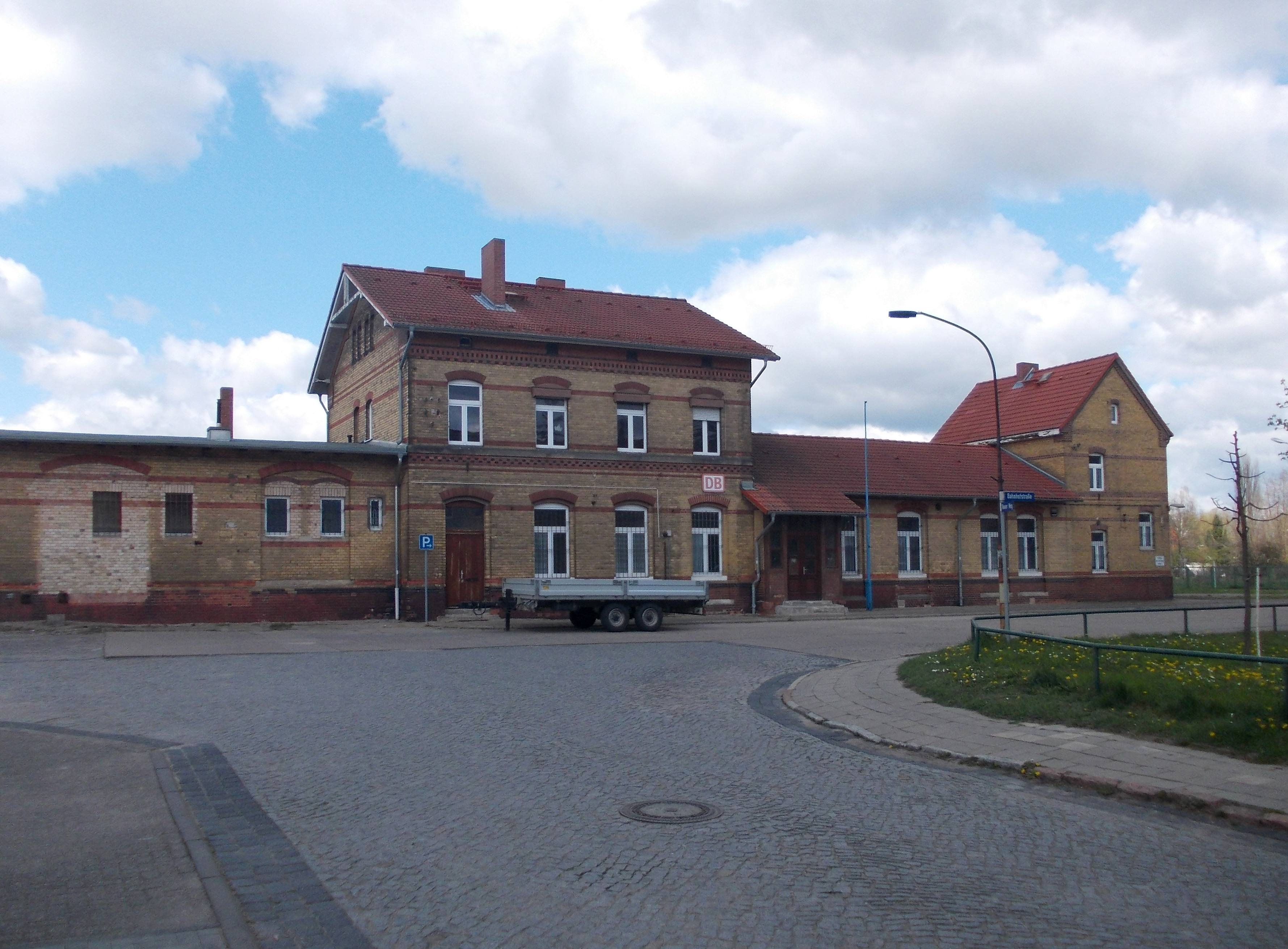 Aken train station (Anhalt-Bitterfeld district, Saxony-Anhalt)